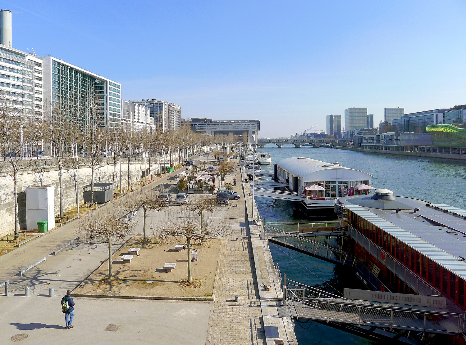 Port et quai de la Rapée - Paris